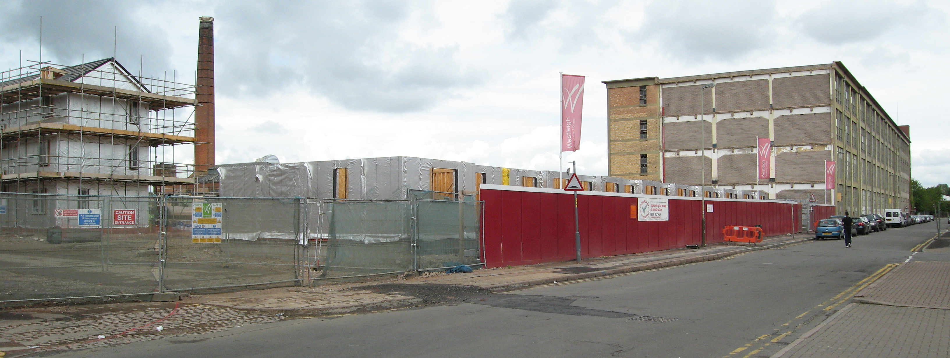 The site of British United Shoe Machinery on Ross Walk during redevelopment, in 2010. A large part of the main building has already been demolished with the rest blanked off, and Westleigh has started residential construction. The tall chimney was at the BUSM power house where the company had its own electricity generation plant.